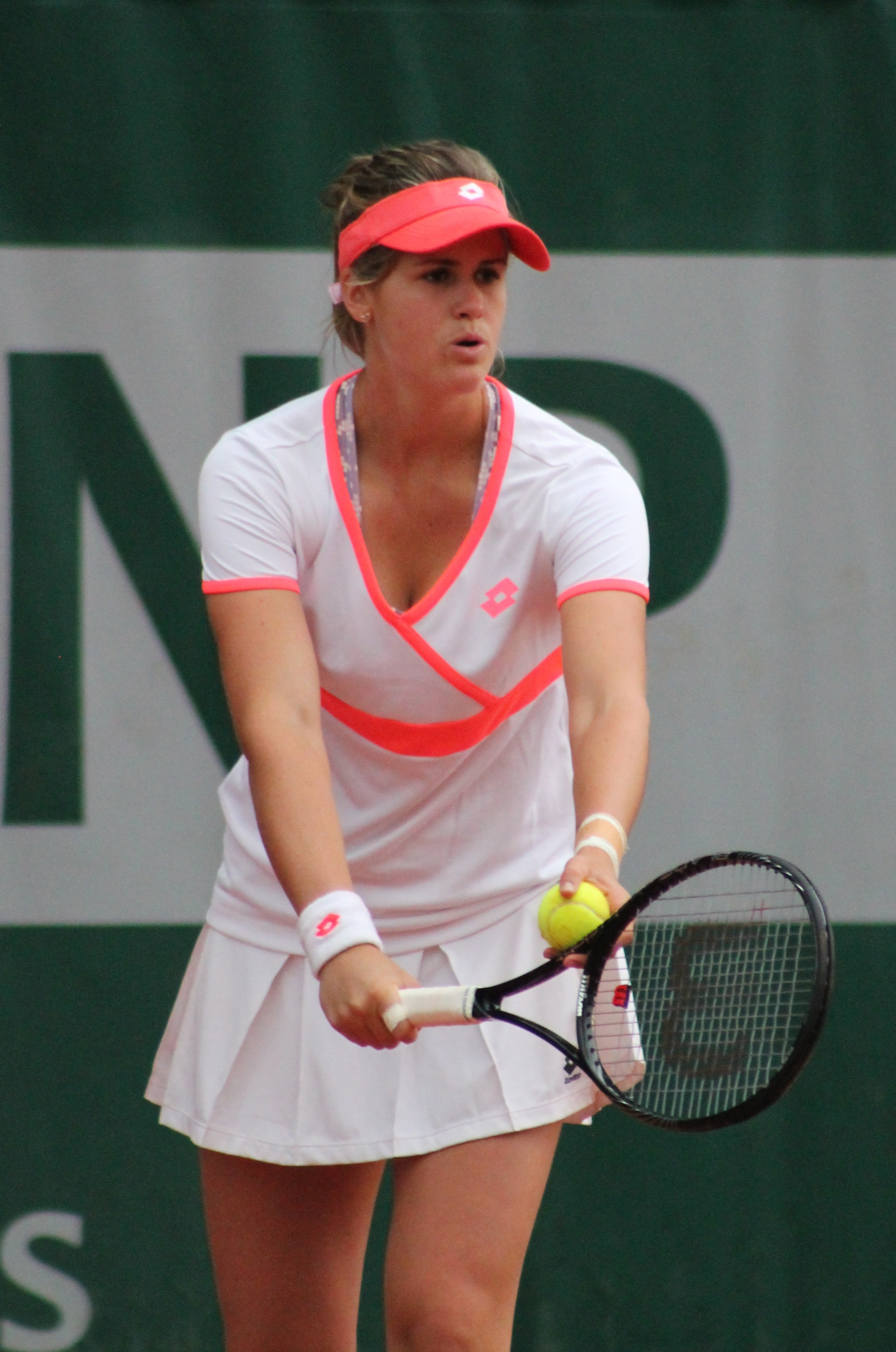 Maria-Teresa Torró Flor playing at Roland Garros 2013